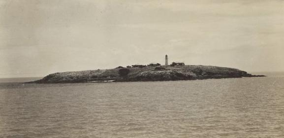 Booby Island